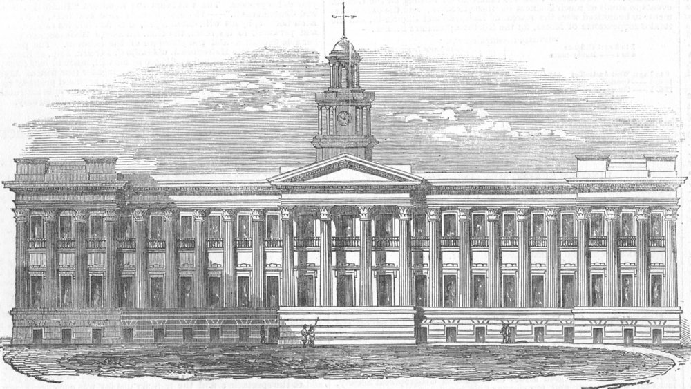 "The New Medical College Hospital, Calcutta," Illustrated London News, 1853*Source: ebay, July 2009